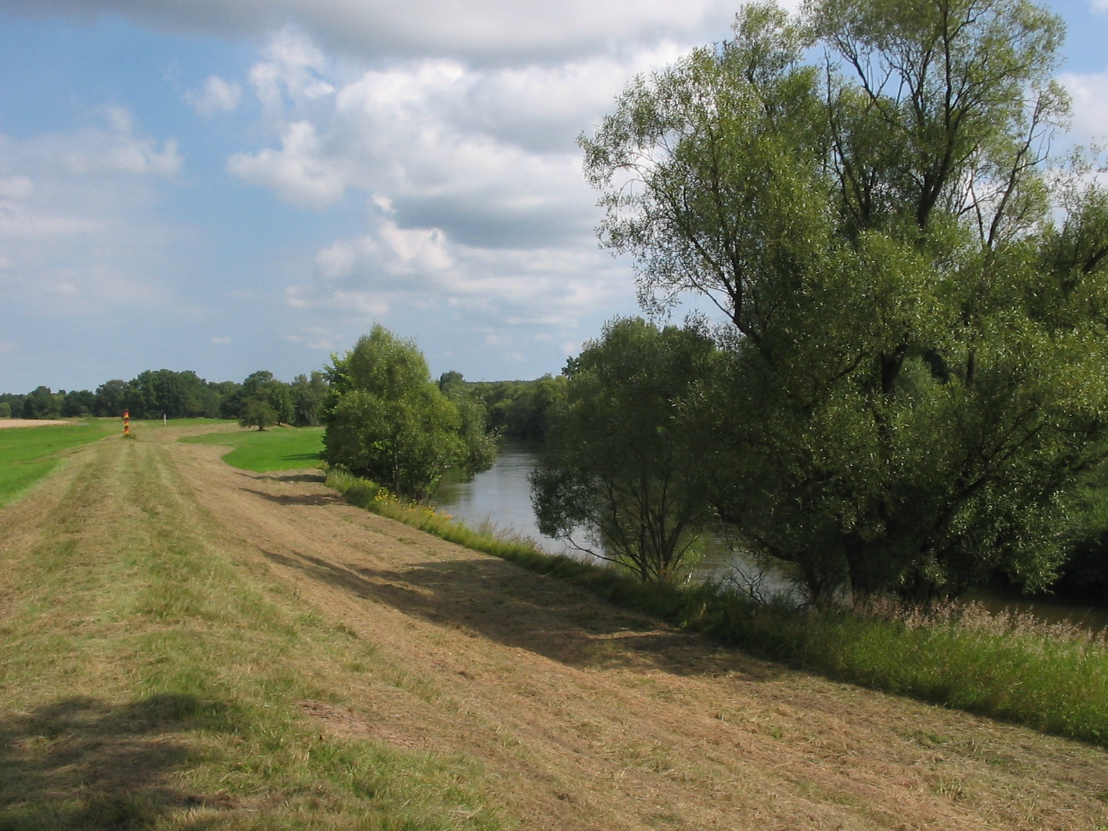 The German bank of the Neisse River, near Bahren. On the left side, on the dike, a border post. See also Oder-Neisse line.